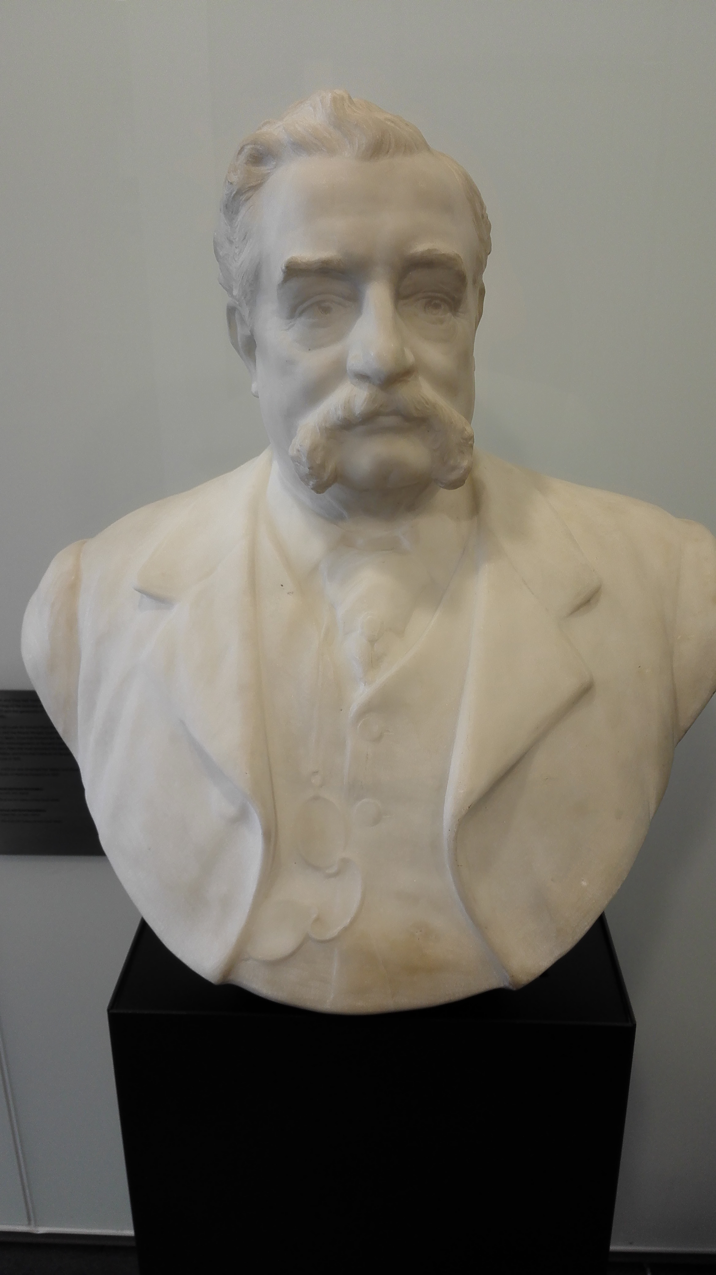 marble bust of Walter Russell Hall (1831-1911), Gift of the Art Gallery of New South Wales. sculpture by Edgar Bertram Mackennal.